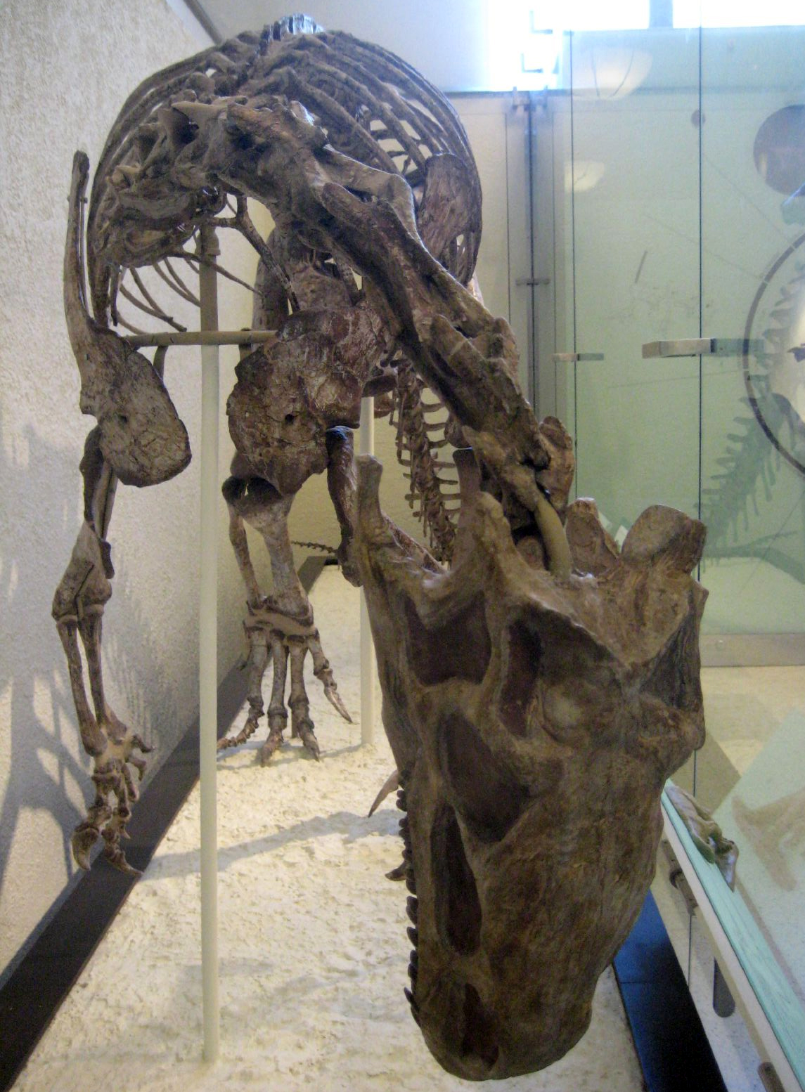 Mounted Plateosaurus trossingensis